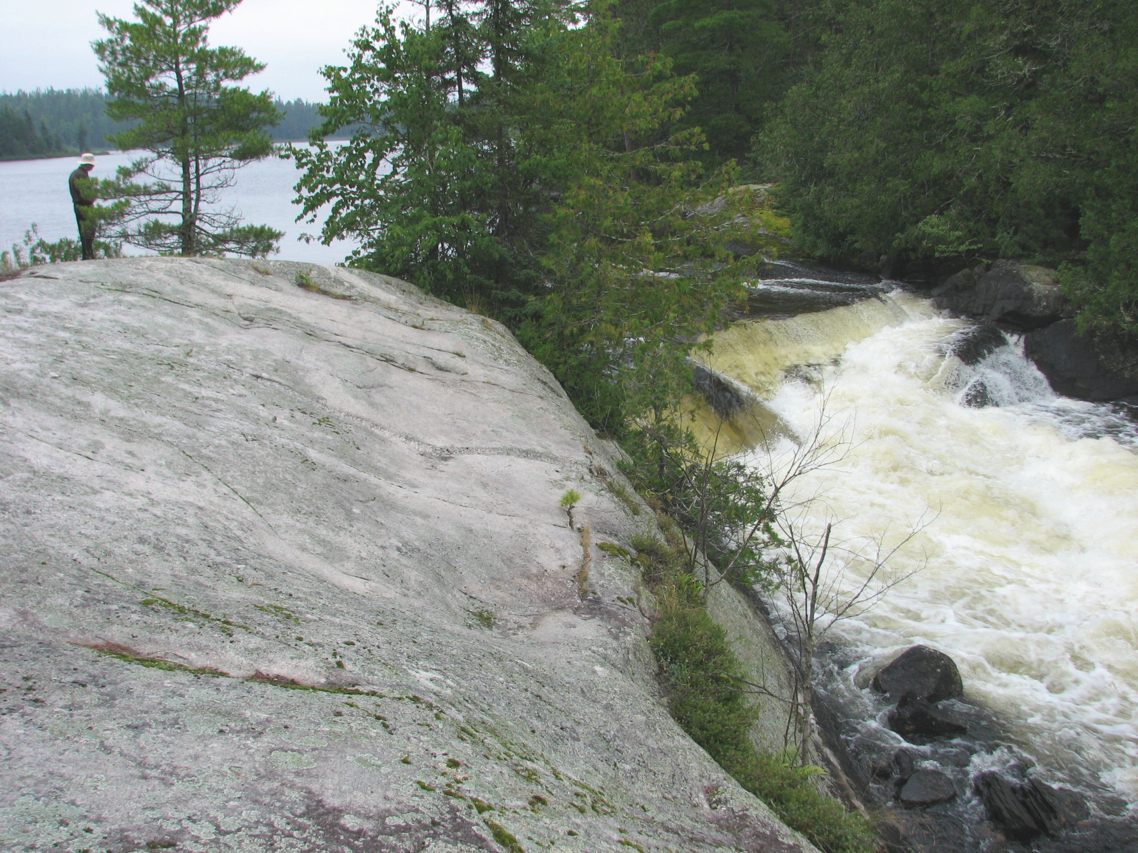 One of the falls that need to be portaged in Quetico Provinicial Park, Ontario